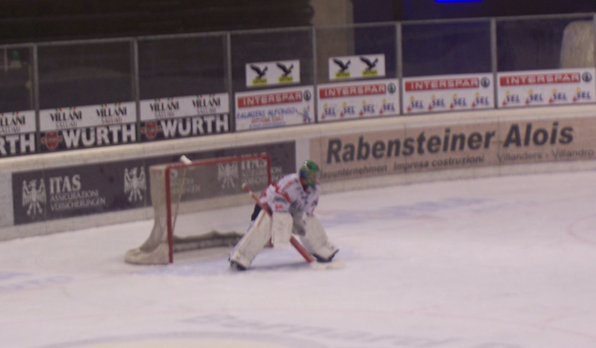 Sergejs Naumovs at Palaonda with the HC Bolzano